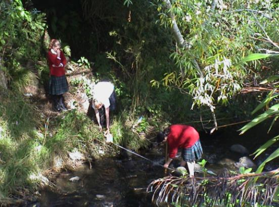 Year 10 Kaikorai Valley College students measuring the cross sectional area of a transect across the Kaikorai Stream to determine, with velocity data, the flow rate